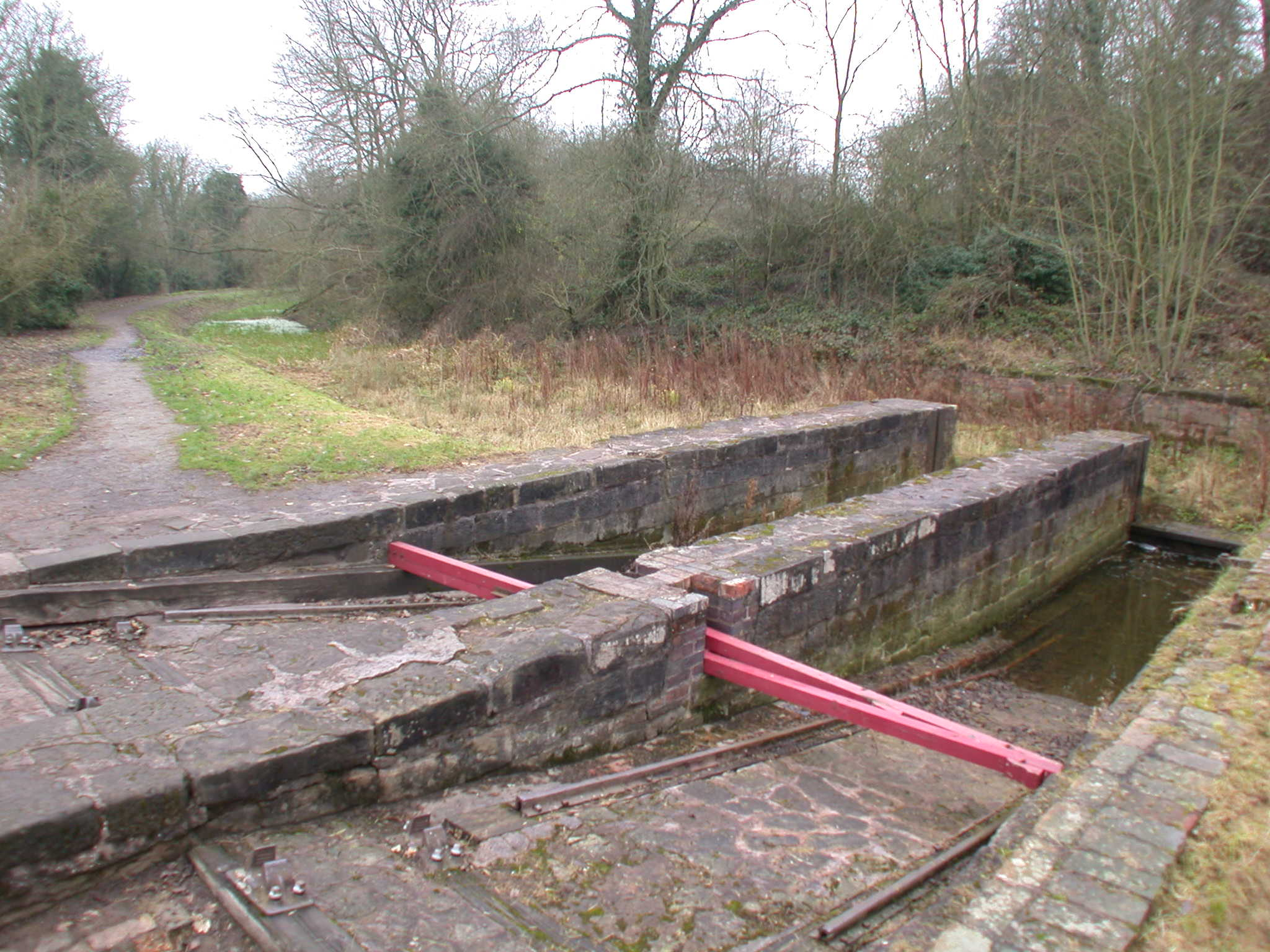 Hay's inclined plane, Ironbridge, United Kingdom. Photo: Riggwelter, Dec 2005